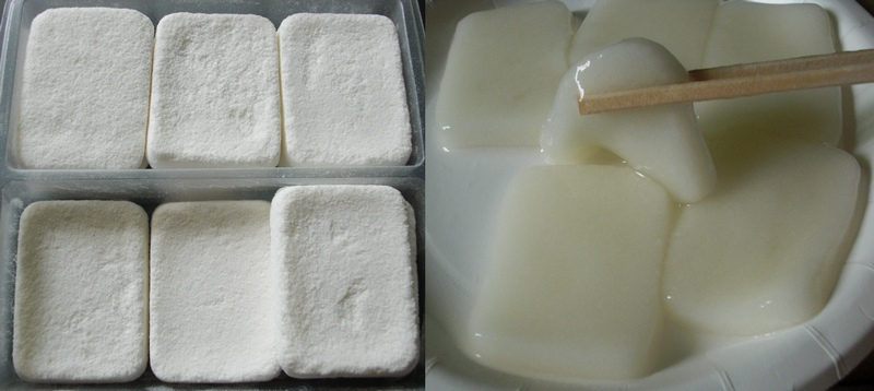 pregelatinized rice cake